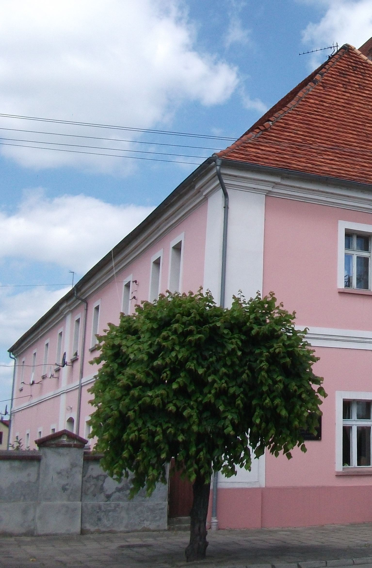 A former Franciscan monastery (18th century), now a museum and a library, in Grabów nad Prosną, Poland